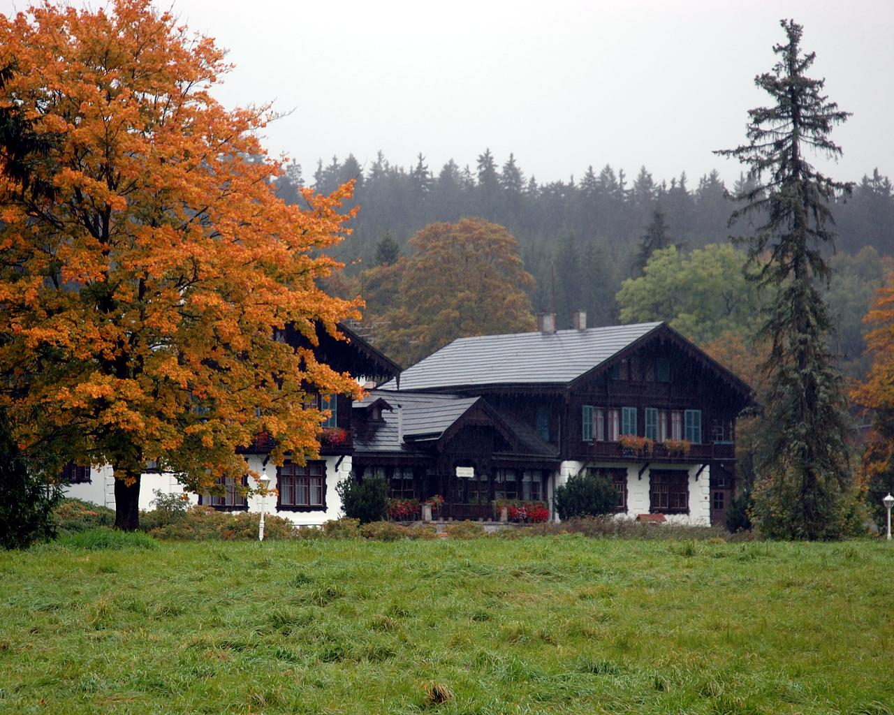 Kladská hunting lodge, Czech Republic